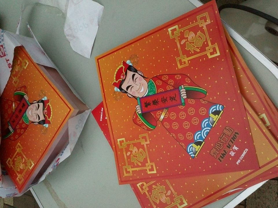 齊心行動